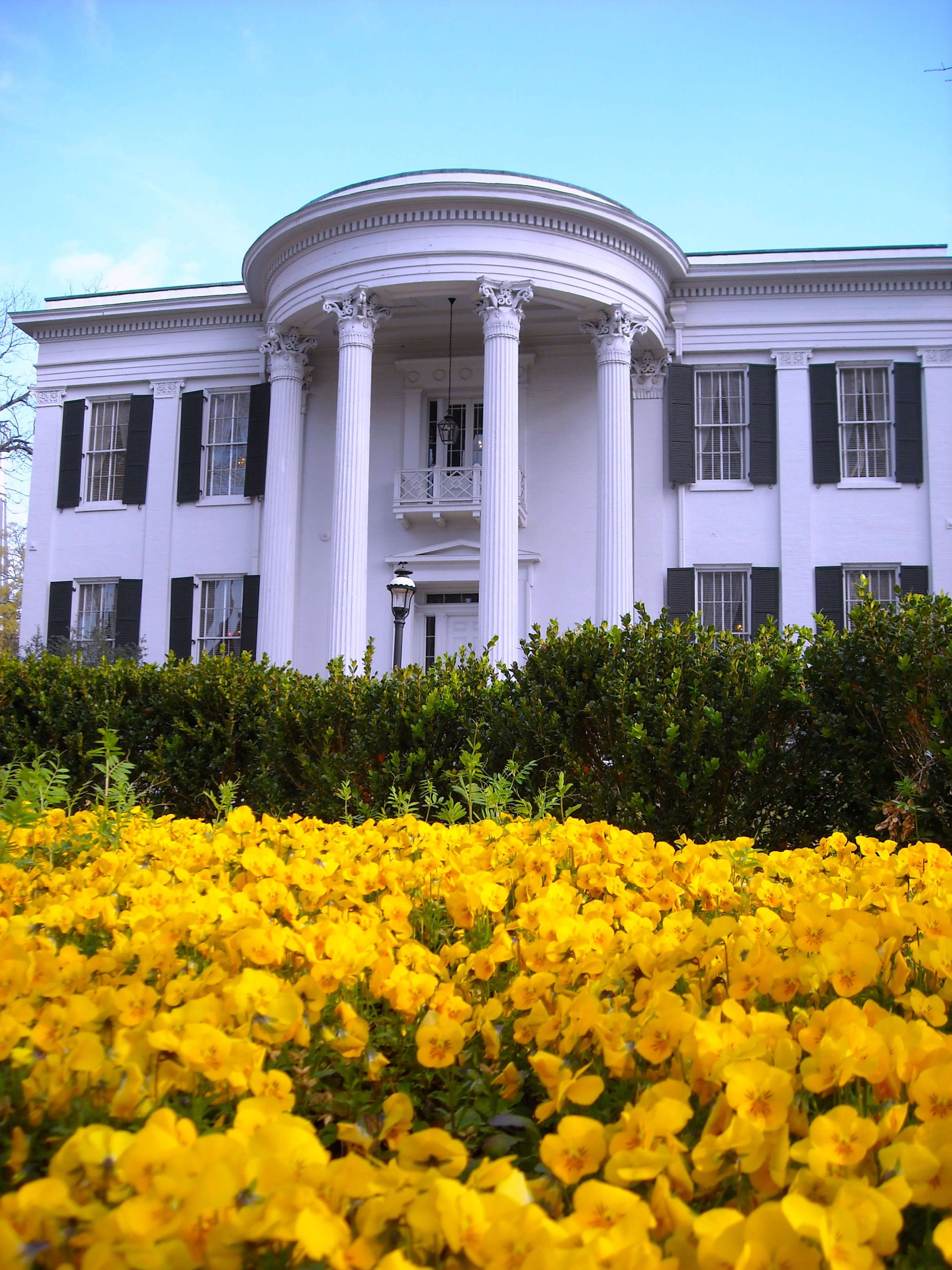 Mississippi Governor's Mansion